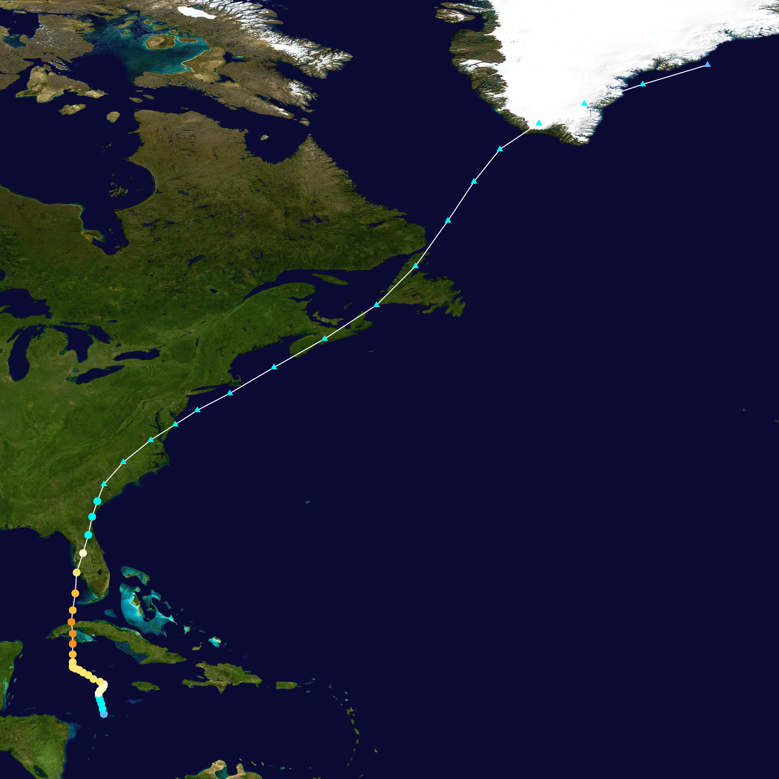 1944 Sanibel Island hurricane track. Uses the color scheme from the Saffir-Simpson Hurricane Scale.